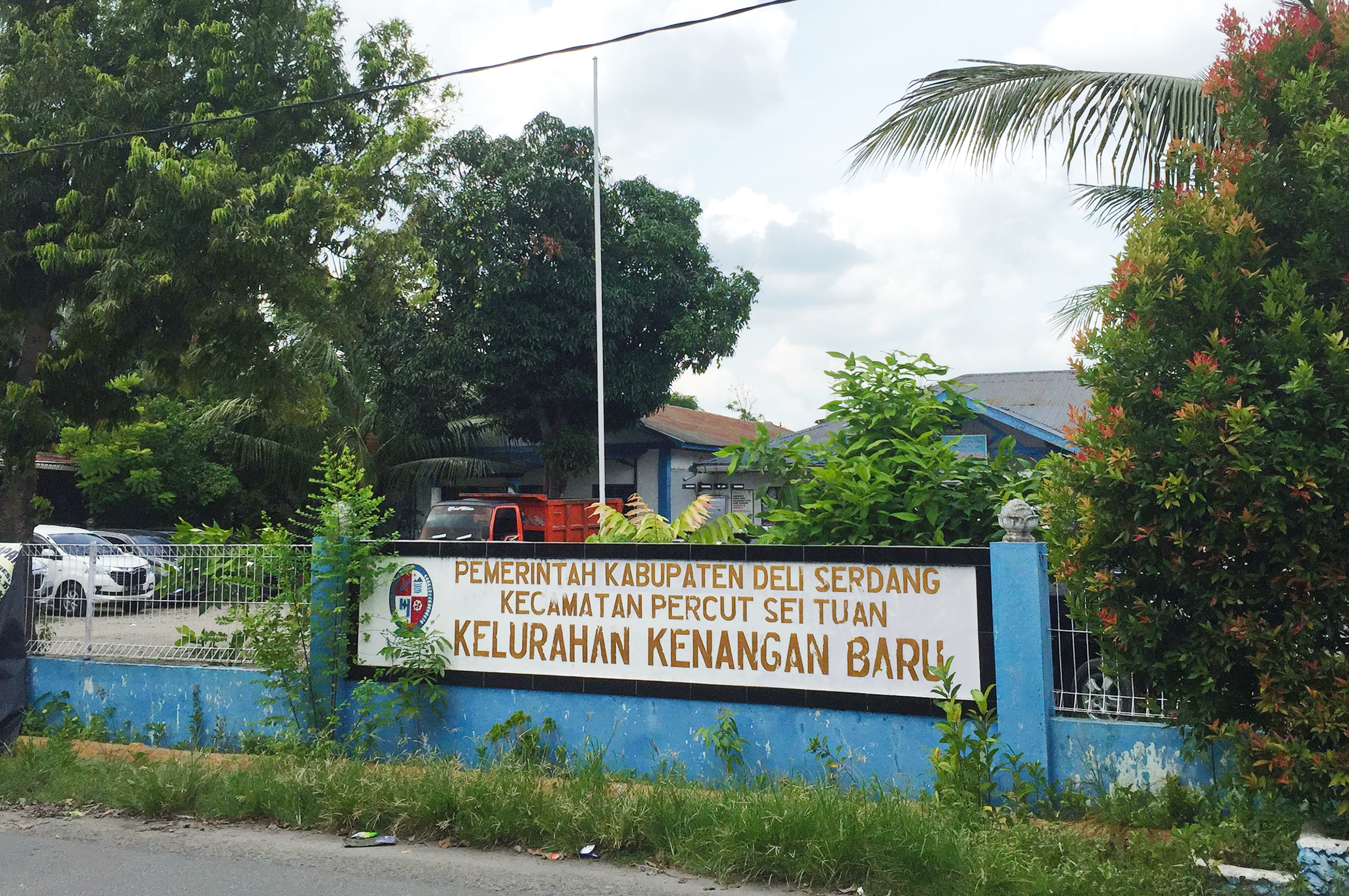 Office of Kenangan Baru, Percut Sei Tuan, Deli Serdang